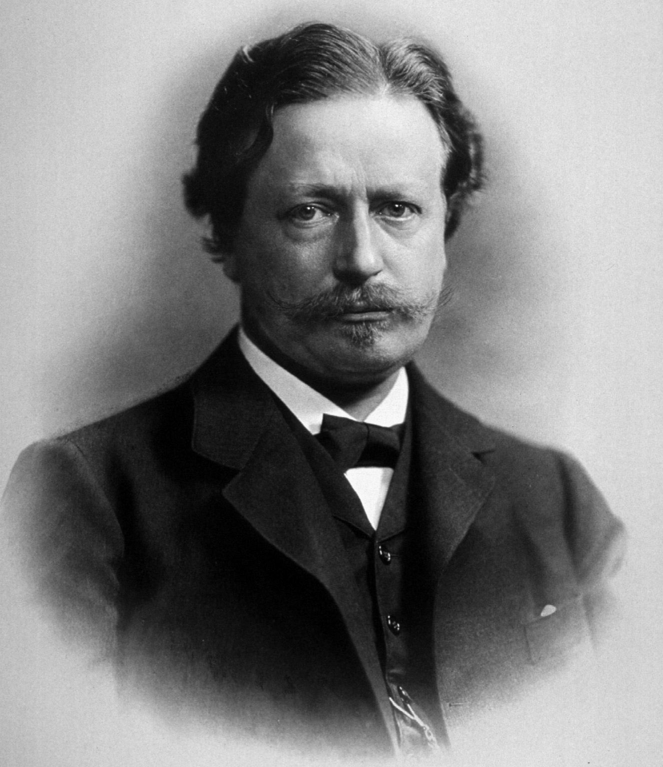 Theodor Ziehen